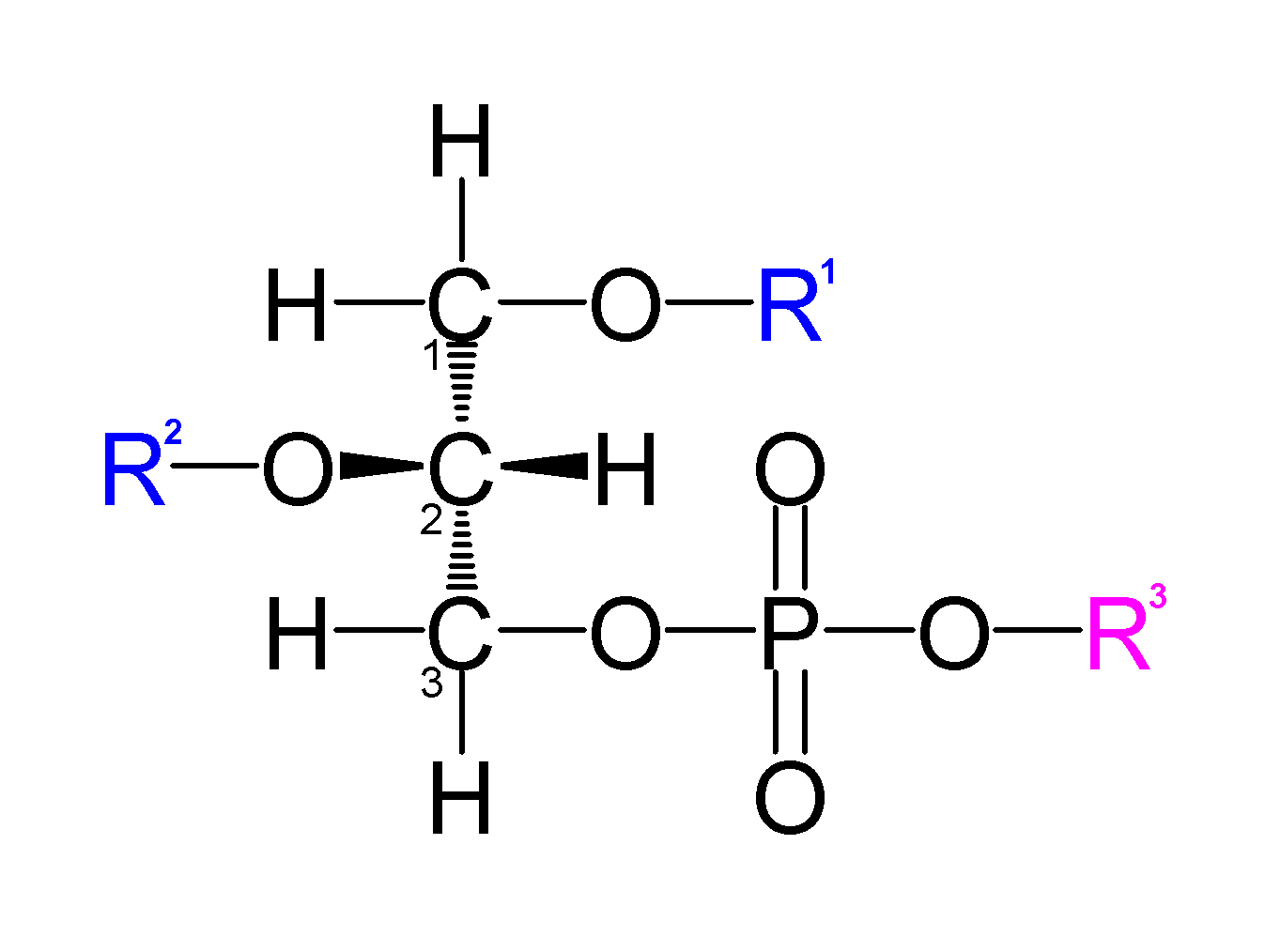 common structure of sn-phosphoglycerides